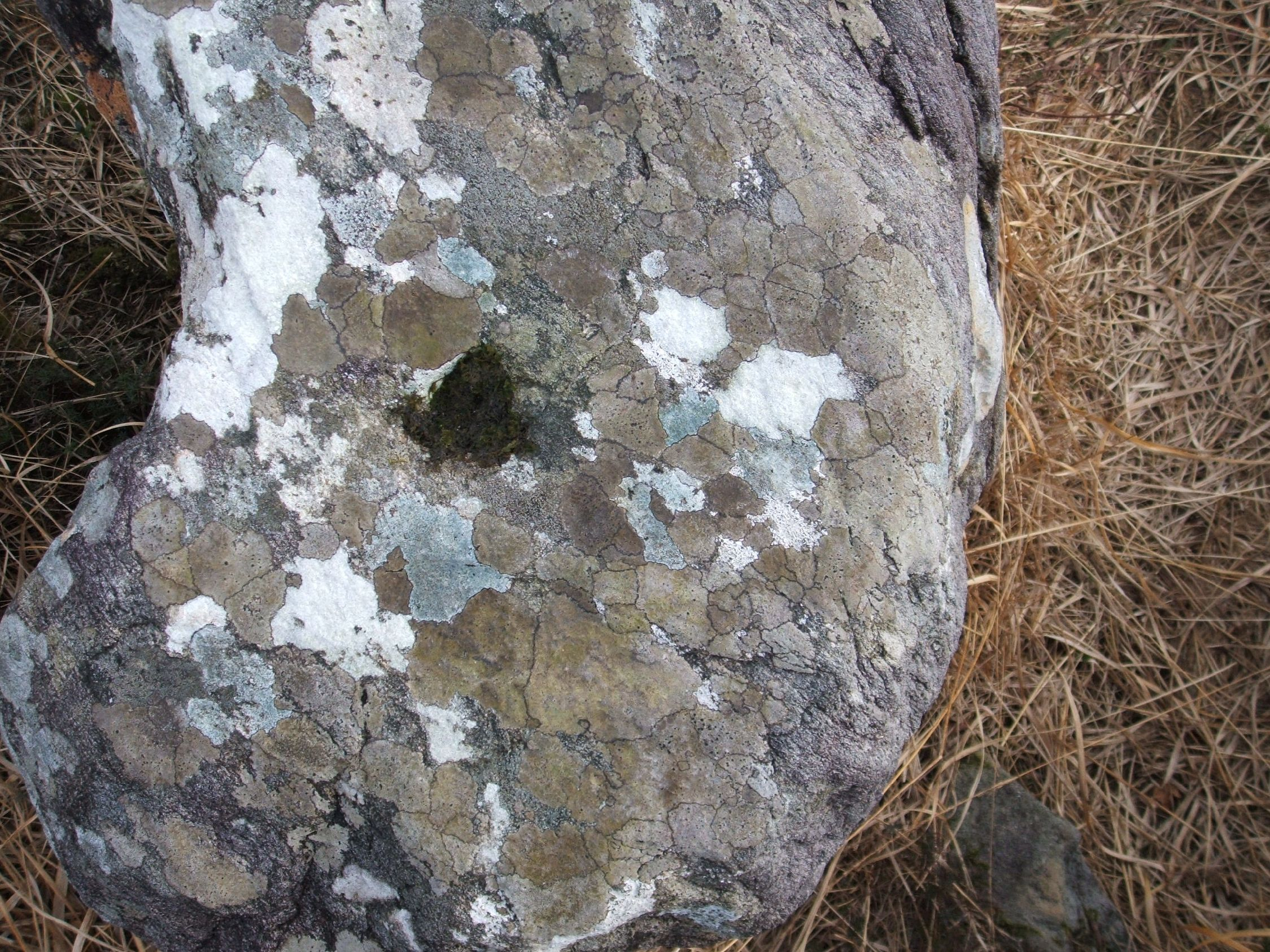 Map Lichen (Rhizocarpon geographicum) on the Old Kenmare/Killarney Road, Co. Kerry Ireland